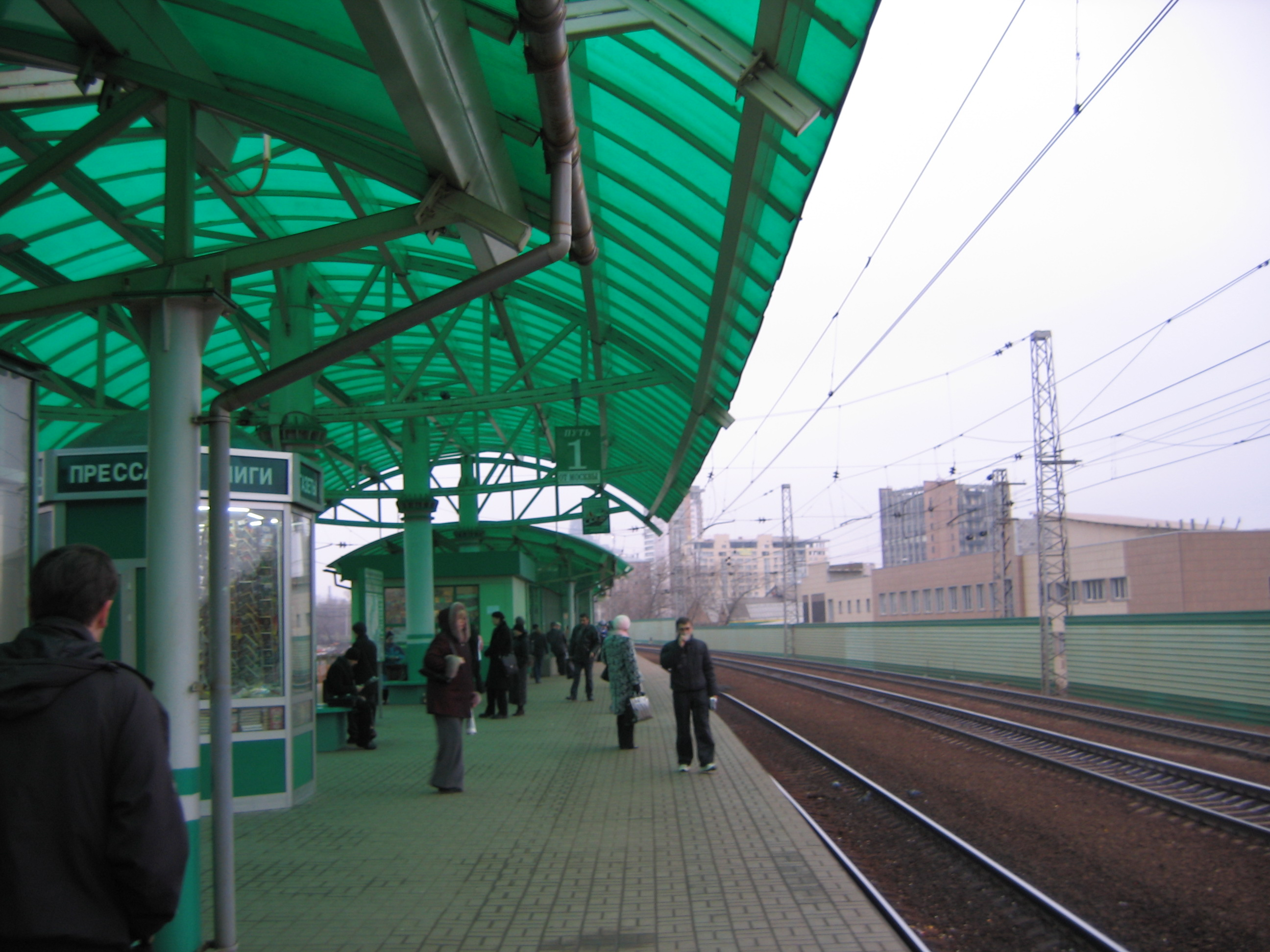 Electrozavodskaya railway station in Moscow, Russia